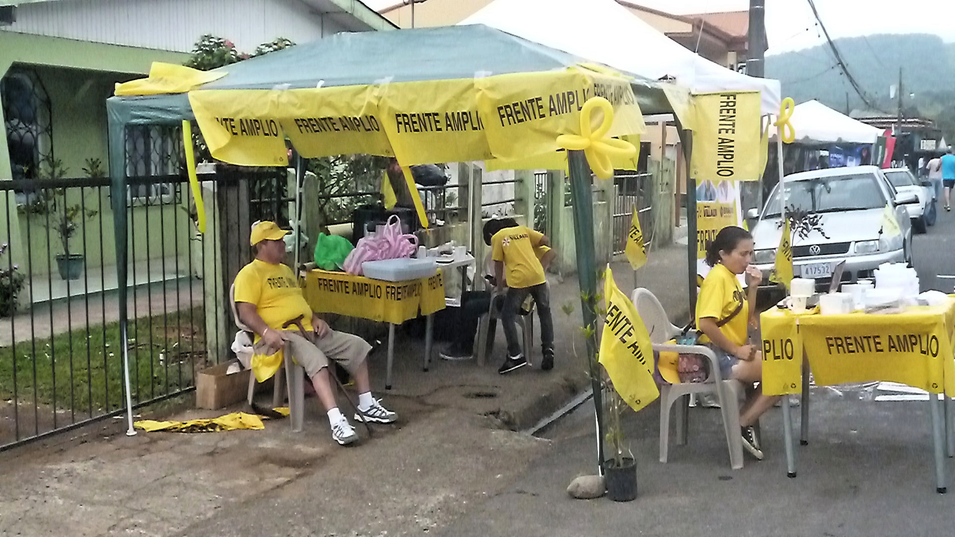 Broad Front spot at Quesada during Costa Rican general election, 2014.